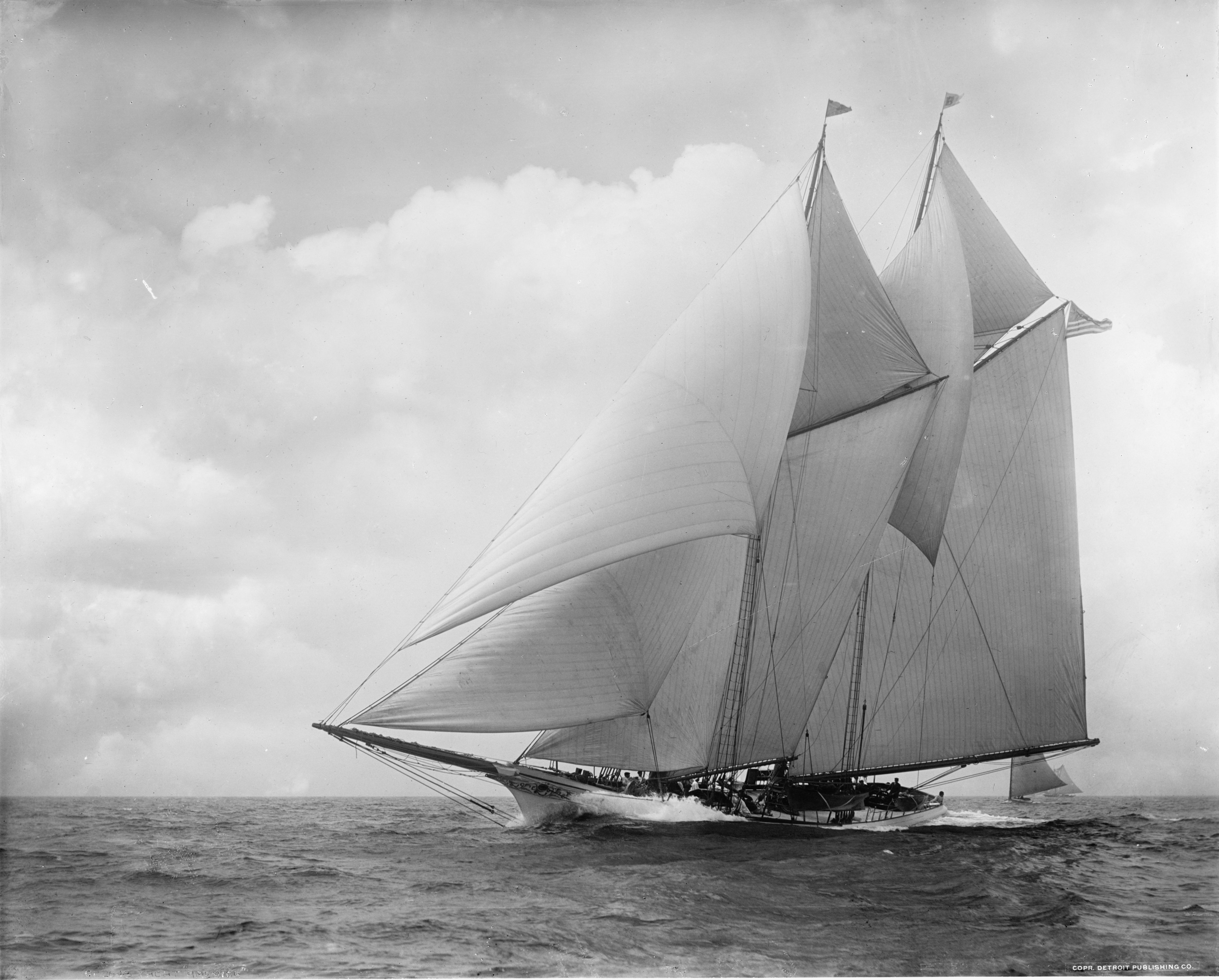 the yankee schooner AmericaNote that this is not America's rig as that with which she won the £100 Cup in 1851: Donald McKay and Edward Burgess refitted her in 1875 and 1885 respectively. By 1887, the rake in her masts was reduced, all her spars were lengthened, she featured a lead keel and carried two extra headsails and a fore gaff topsail. In this photograph she also carried a fisherman. An enlarged rig and modernised build would have kept the ageing America competitive in the light yankee airs.